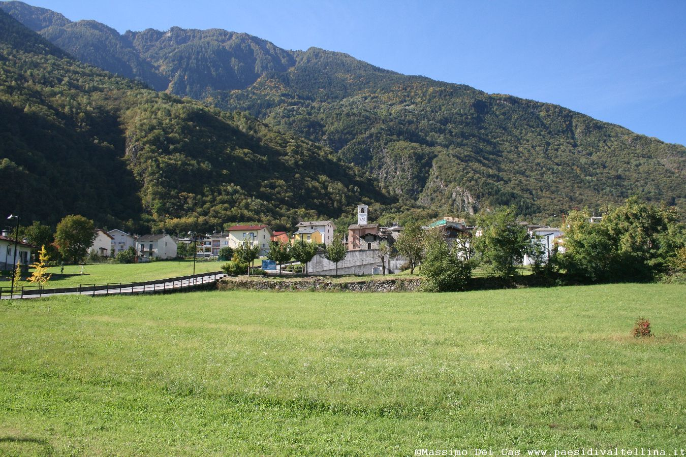 colorina centro